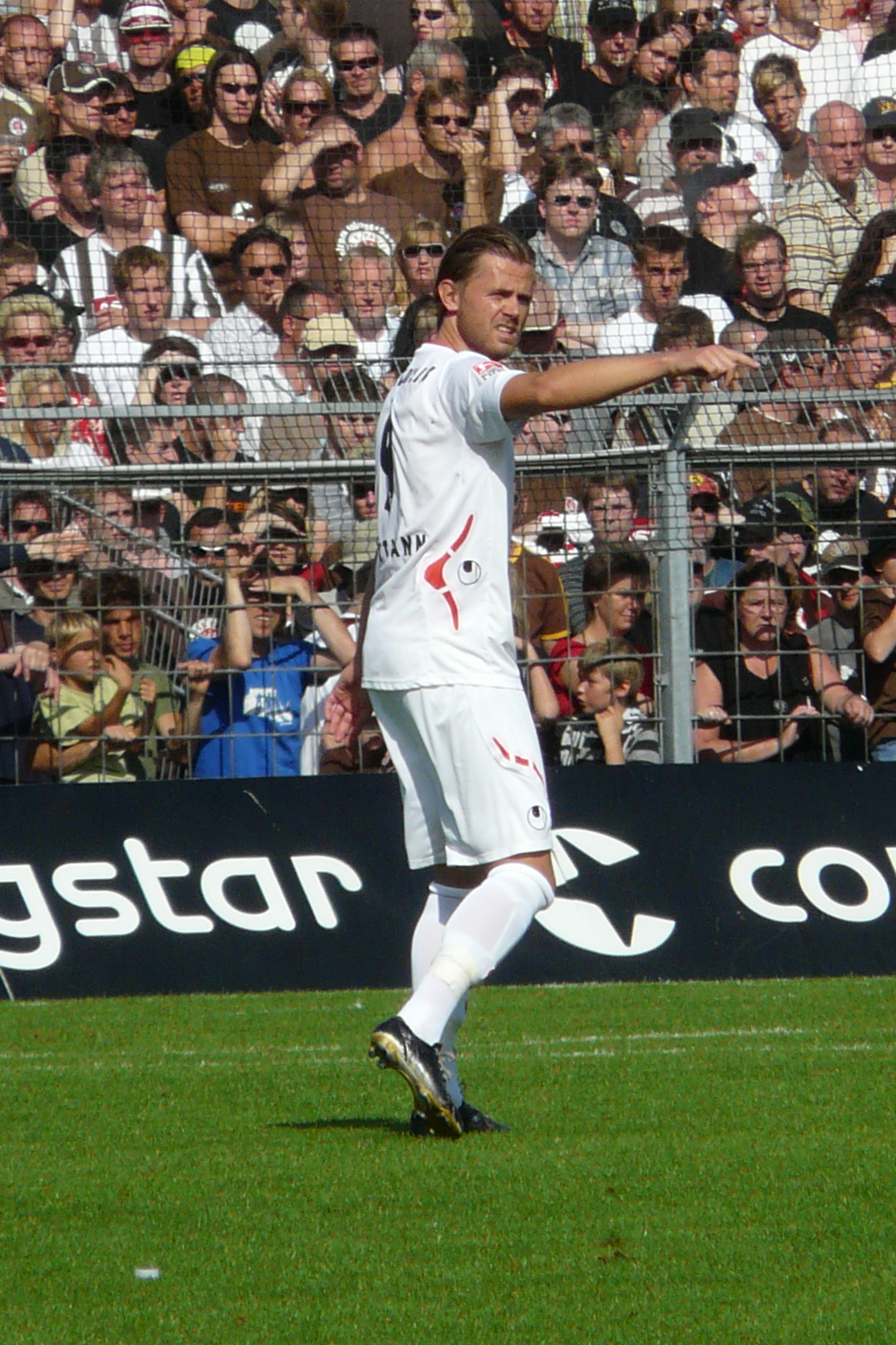 Julian Lüttmann as Player from Rot-Weiß Oberhausen